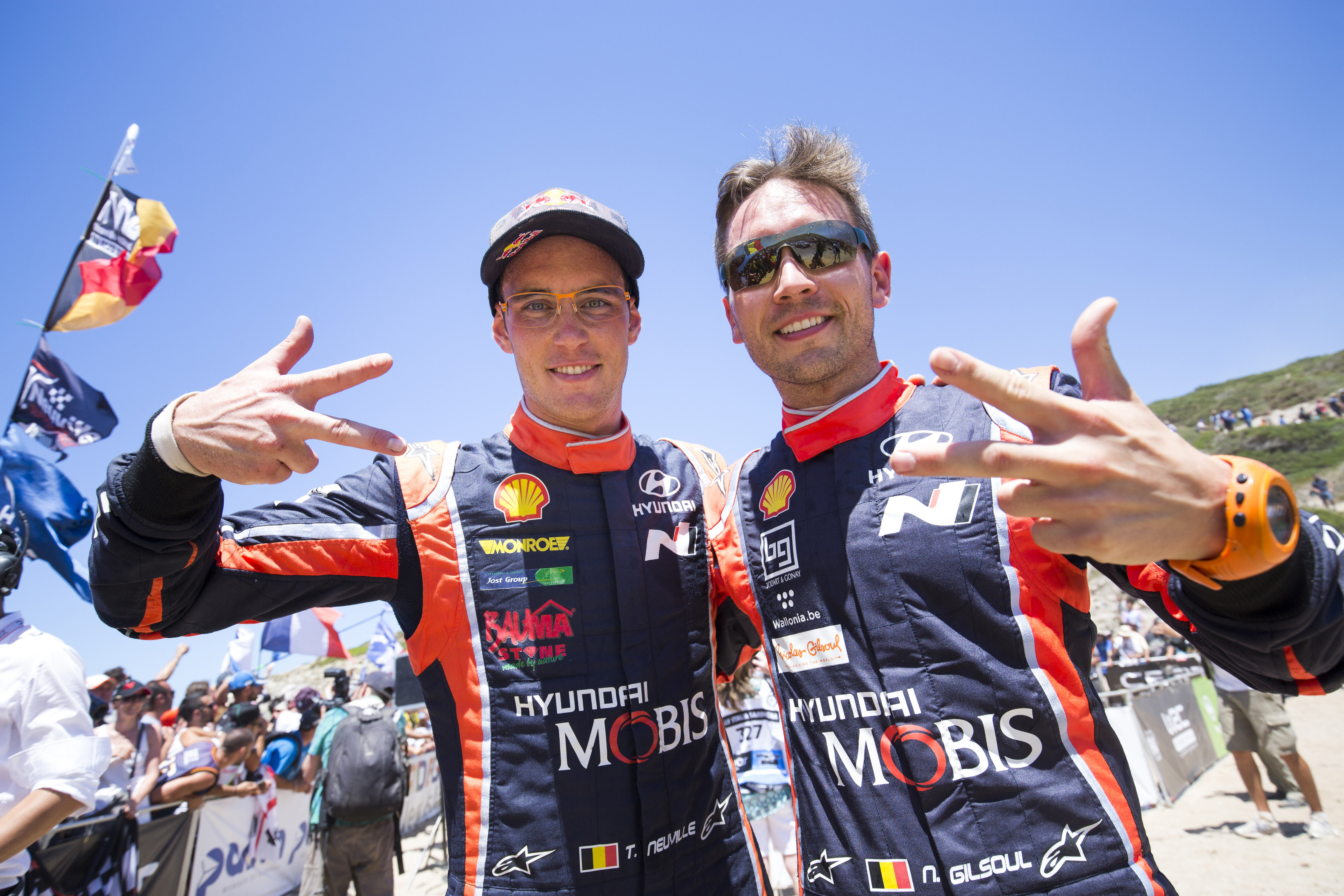 Thierry Neuville and Nicolas Gilsoul celebrate third place at Rally Sardinia, june 2017.